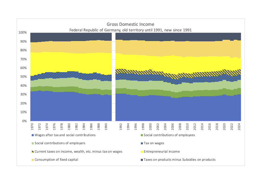 gross national income of Federal Republic of Germany, data from Statistisches Bundesamt, Wiesbaden, Fachserie 18, own computations.